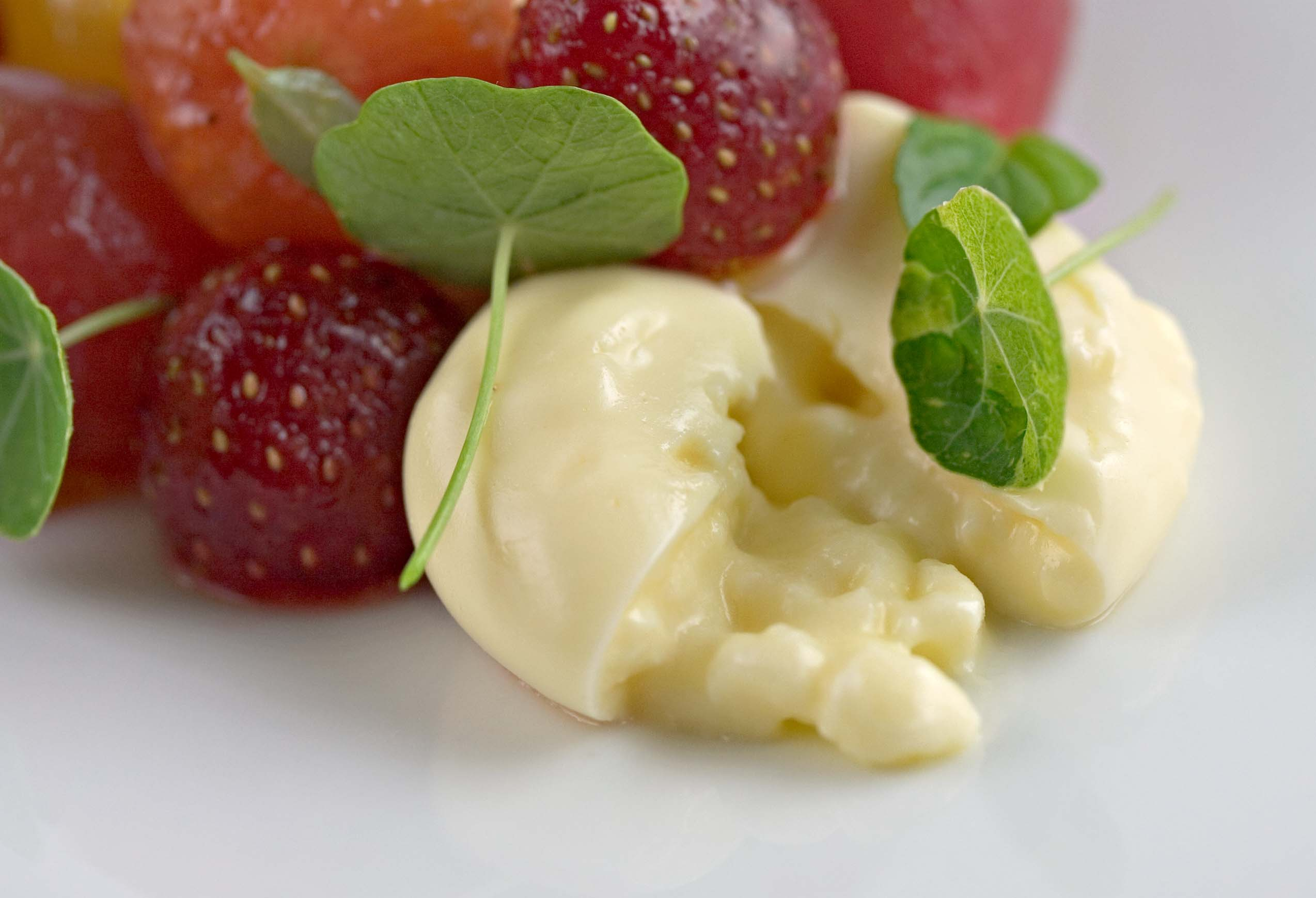 Buttermilk Burrata marinated tomatoes and strawberries, minus 8 vinegar, nasturtium leaves